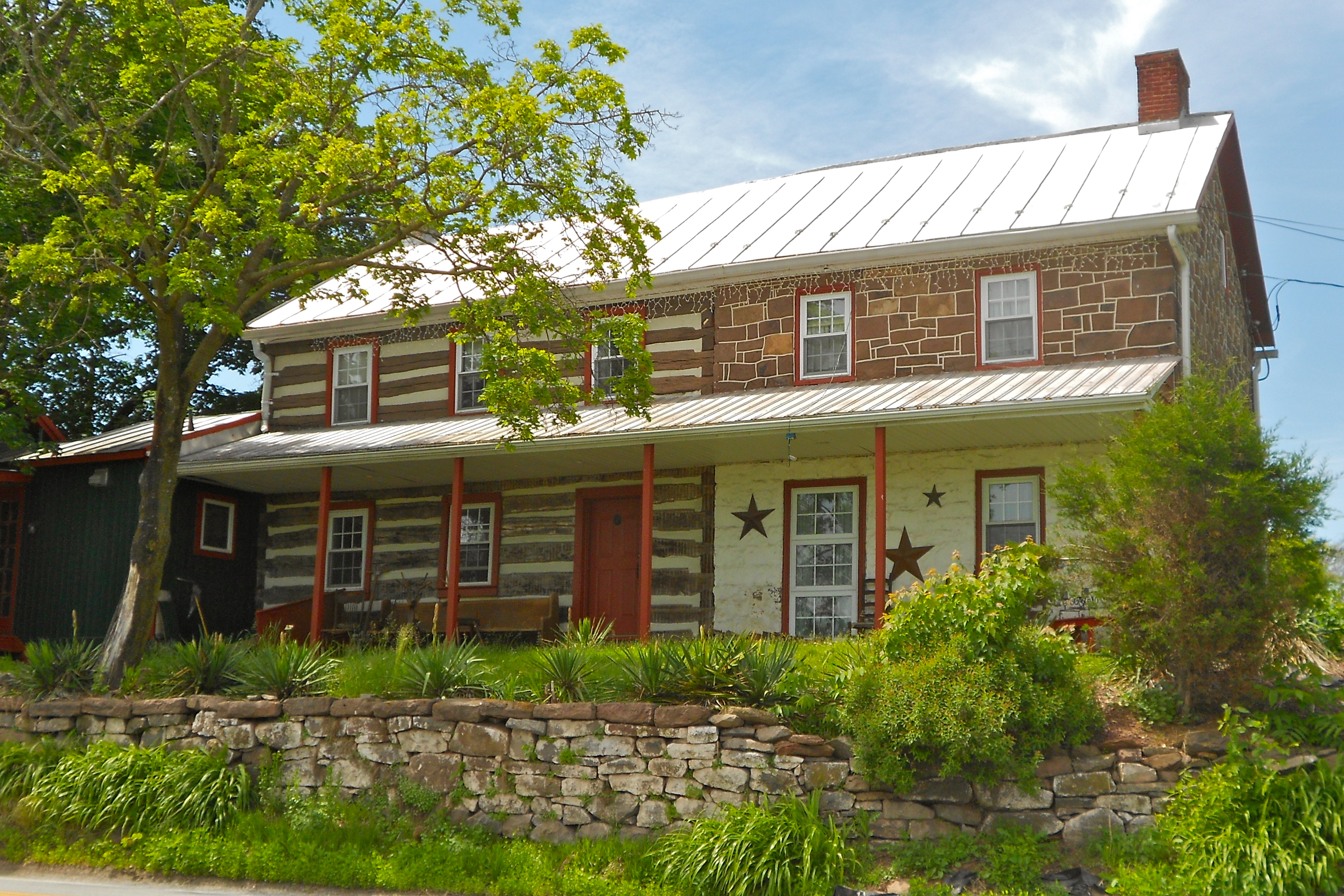 House in Newberry Township, York County, Pennsylvania at Potts Hill Road and Old Quaker Road.